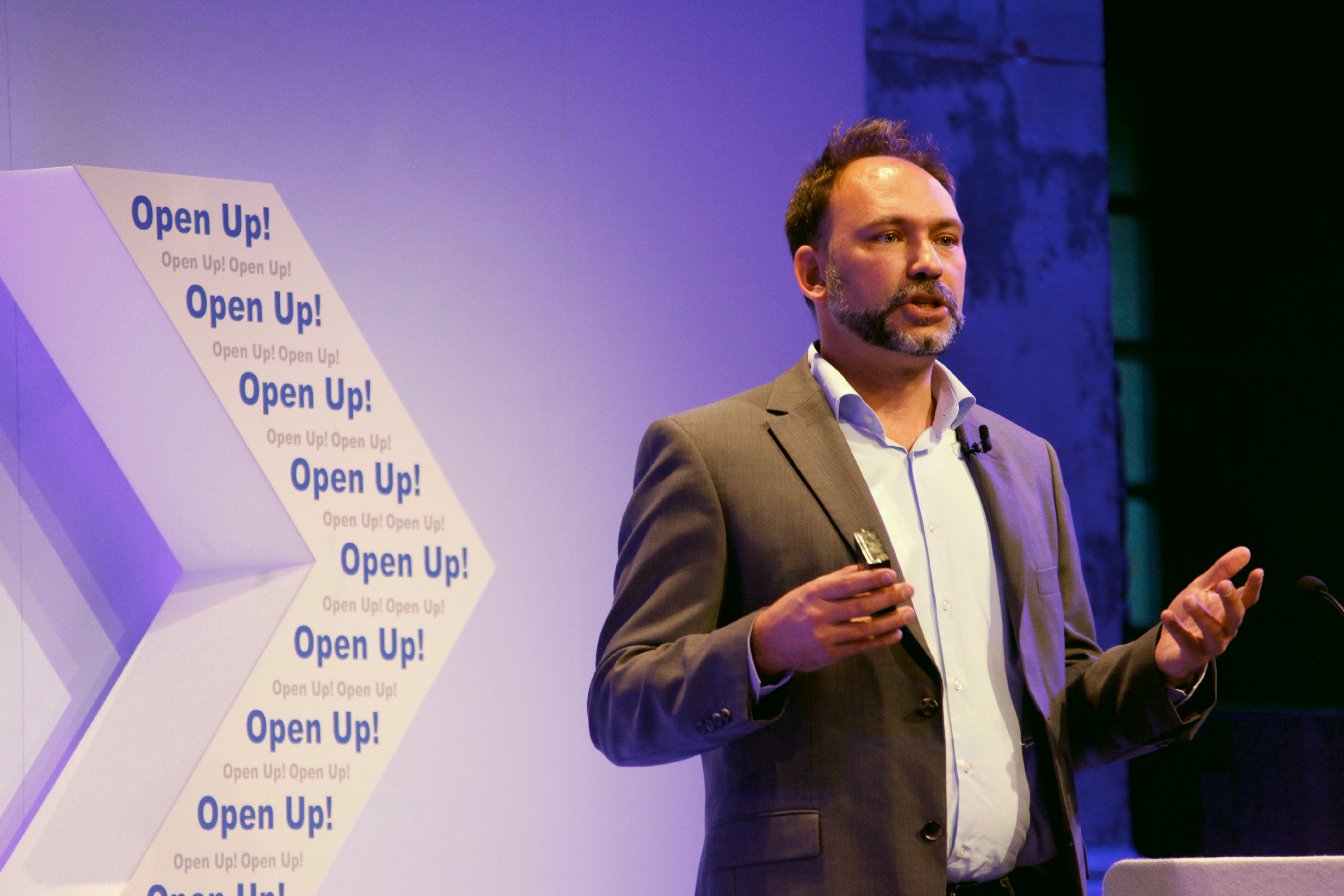 Gustav Praekelt of Praekelt Foundation, speaking at the DFID/Omidyar Network Open Up! conference in London, 13 November 2012 Terms of use This image is posted under a Creative Commons - Attribution Licence, in accordance with the Open Government Licence. You are free to embed, download or otherwise re-use it, as long as you credit the source as 'Russell Watkins/DFID'.